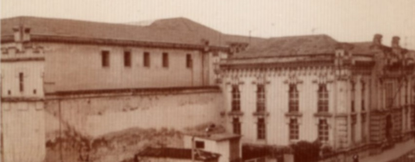 El Coto prison